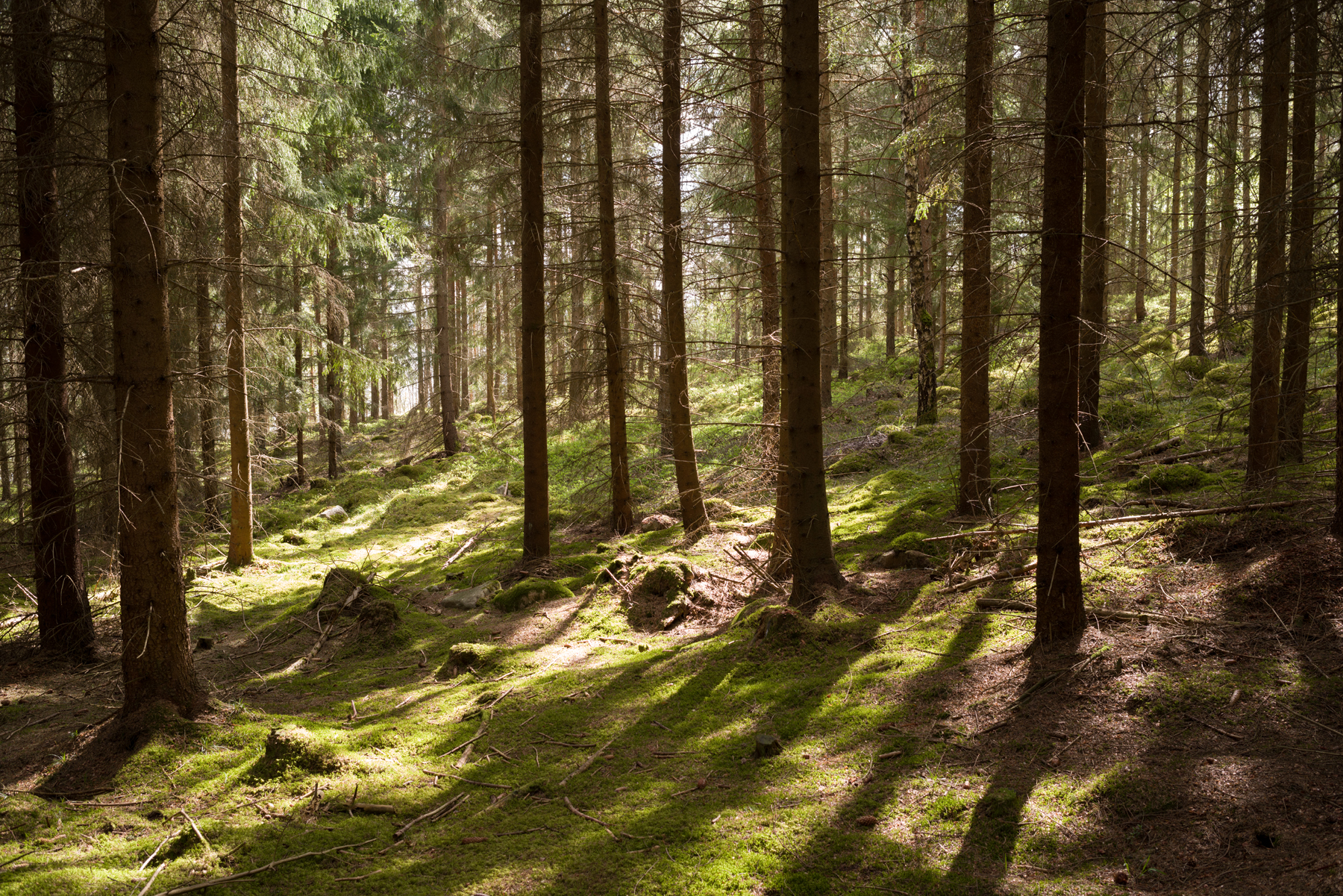 Pine trees (Pinus sylvestris) adorn this steep slope